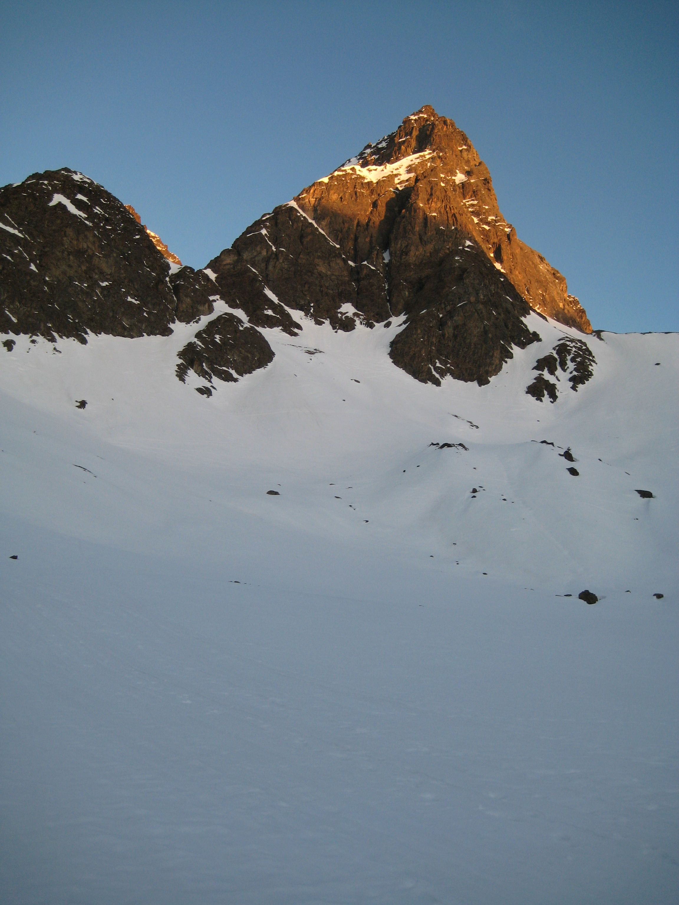 Piz Buin (summit not visible) seen from Tuoi hut. left Cronsel and Kleiner Piz Buin (Piz Buin Pitschen)